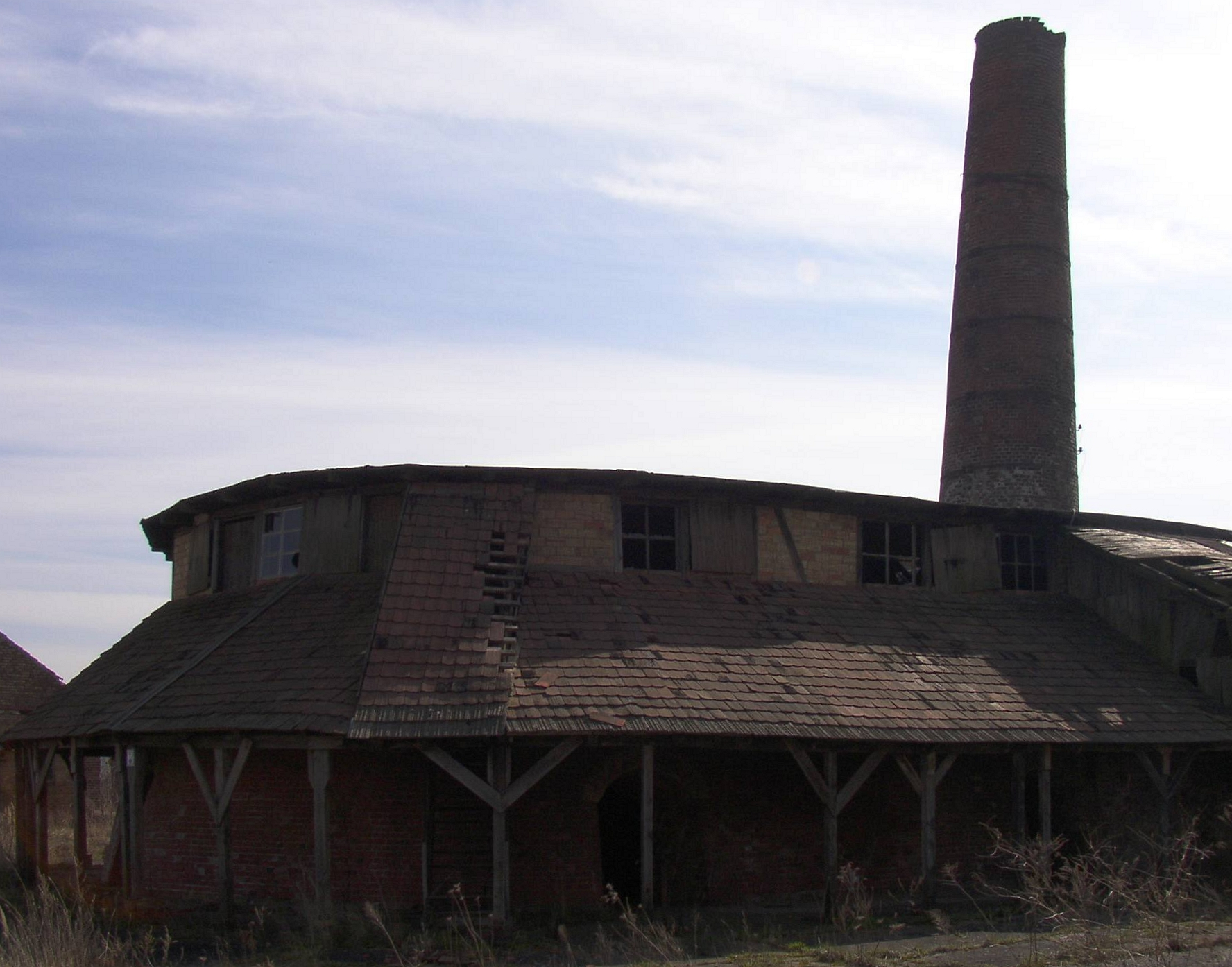 Brickyard in Wiesenburg-Reetz in Brandenburg, Germany